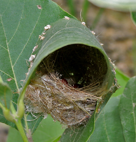 Common Tailorbird Orthotomus sutorius nest in Hyderabad , India.